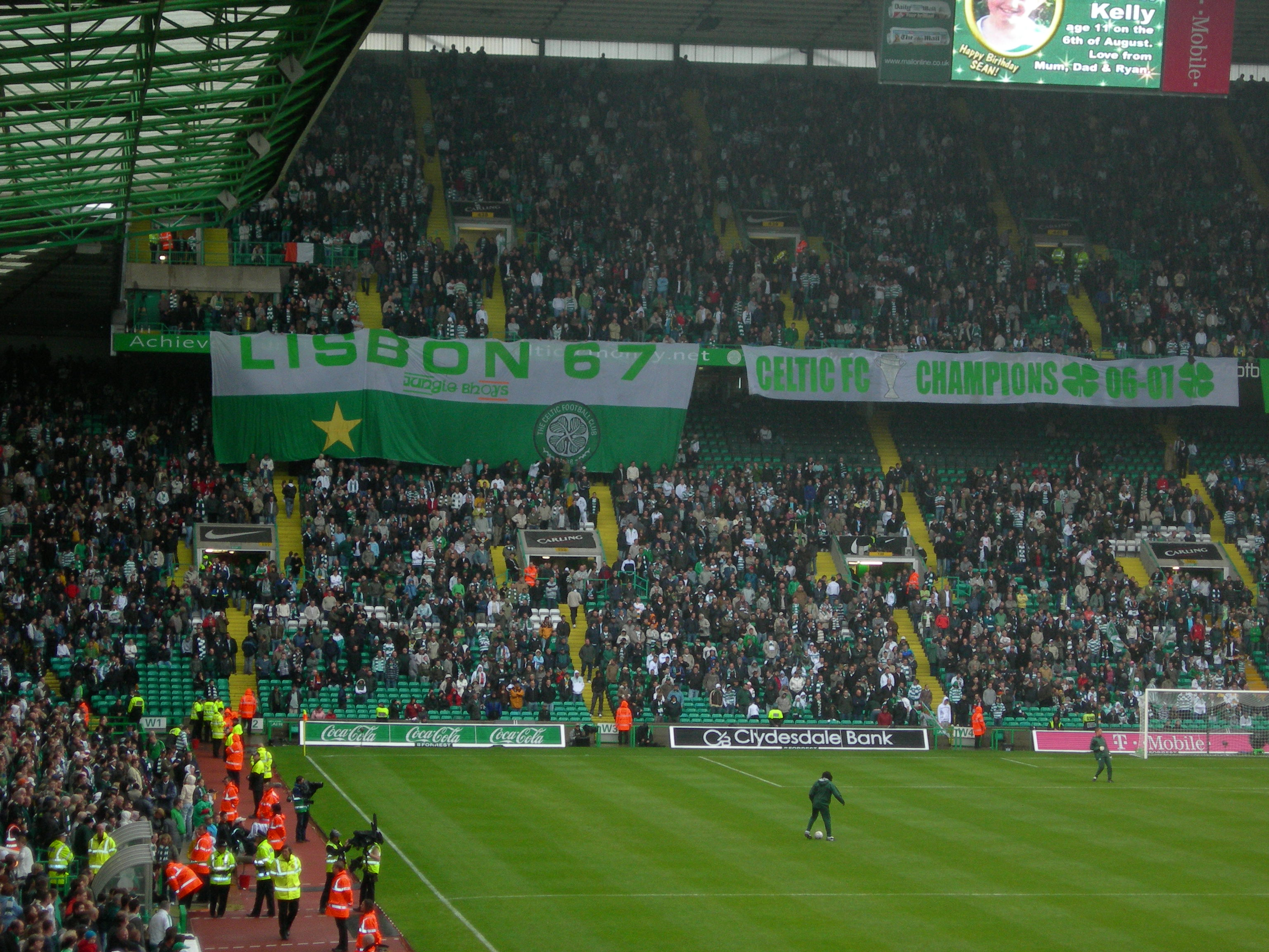 Celtic FC fans celebrating European Cup victory in 1967.